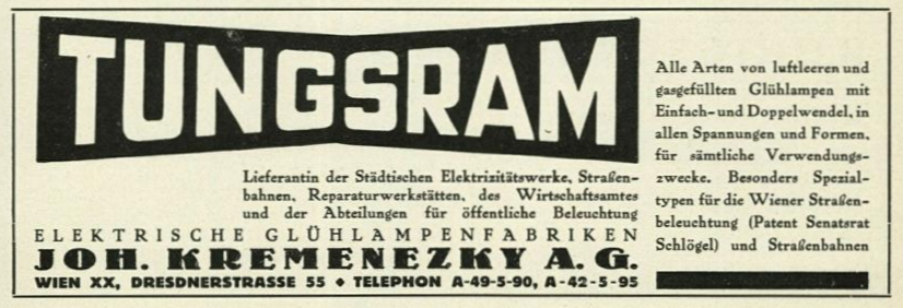 Advertisement of the electric light bulbs factories of Johann Kremenezky.